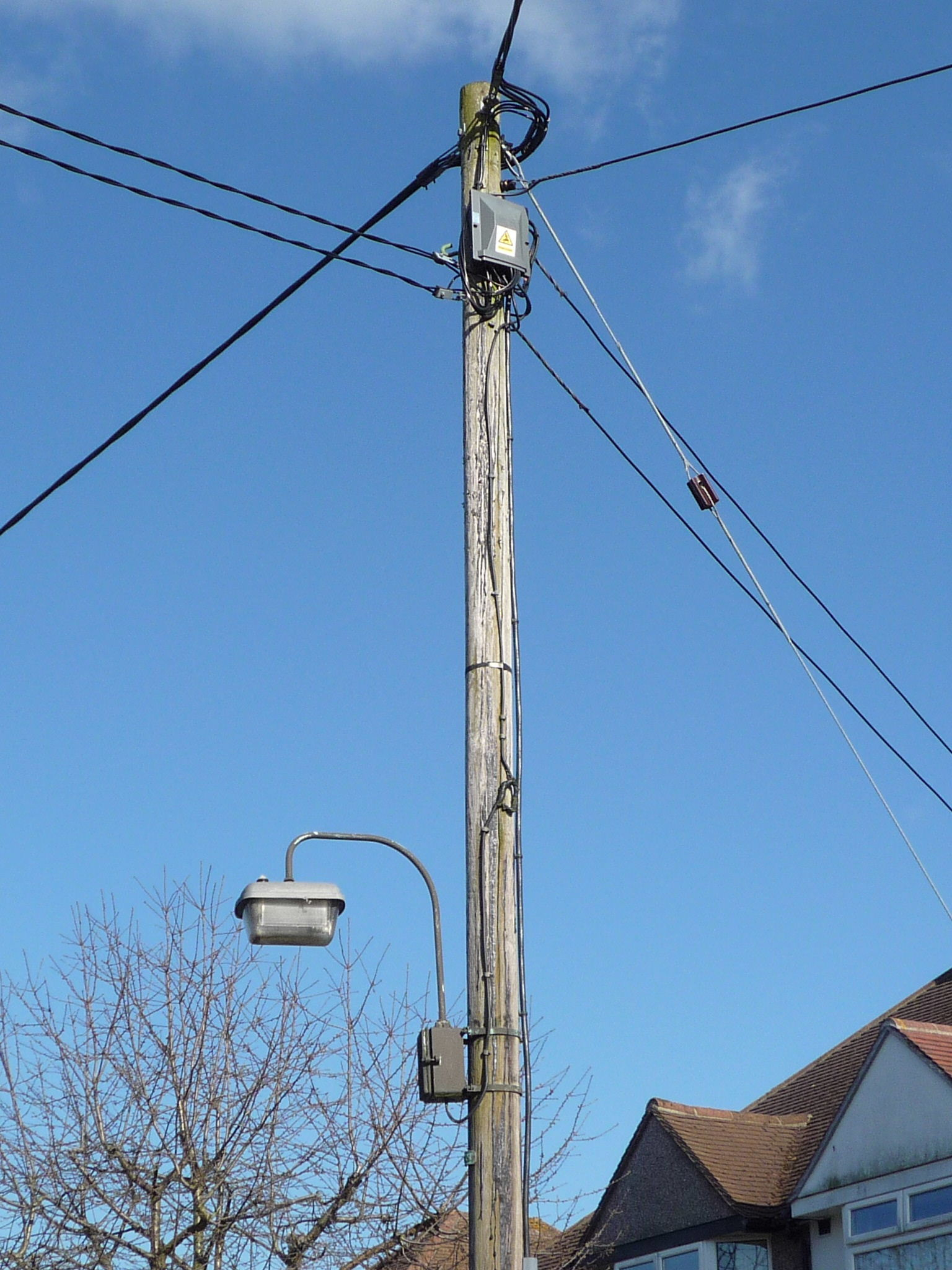 An aerial bundled cable (ABC) seen at grid reference TQ 316 577 in Keston Avenue, Old Coulsdon, London Borough of Croydon. Within Greater London almost all low voltage distribution is underground. This road stands out as a curious exception to the rule. Key: A Four-conductor ABC to the next pole in either direction BTwo separate two-conductor ABCs supplying two houses via another pole on the opposite side of the road CTwo separate non-bundled conductors supplying an house DA conventional two-conductor cable supplying another house EJunction box FLead to street lamp GEarth connector - protective multiple earthing is used so the neutral conductor must be earthed at every pole